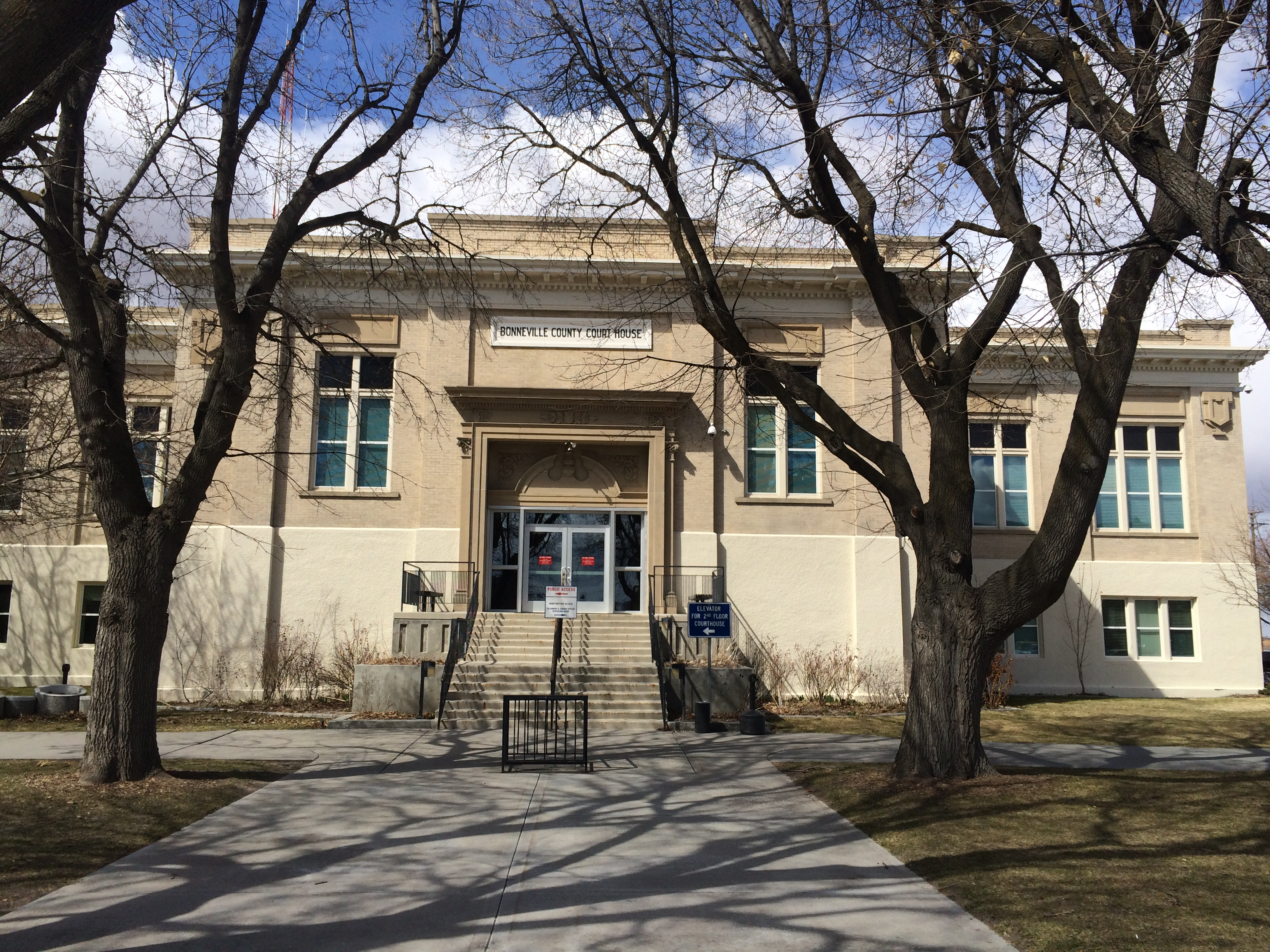 East face and main entrance of the Bonneville County Courthouse in Idaho Falls, Idaho, USA